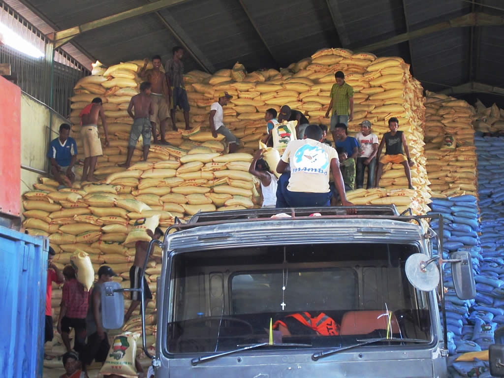 bags of rice being unloaded at a Dili warehouse